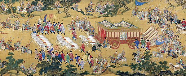 "Departure Herald", 26 m (85 ft) in length, from the Chinese Xuande reign period (1425-1435 AD); the painting shows the emperor's large procession heading towards the imperial tombs of the Ming emperors located roughly 50 km north of the capital Beijing. This painting is usually paired with another panoramic painting called "Return Clearing", 30 m (98 ft) in length, which shows the emperor returning to the capital from the tombs by river boat. From Paludan's source listed below, this passage describes a particular scene of this painting: "Detail of a silk scroll, The Emperor's Approach, showing the luxury in which the emperor Xuande travelled. Elephants were kept in the imperial elephant stables until around 1900 and were often used for ceremonial occasions, such as the emperor's visits to the Temple of Heaven. Here, however, the large number of horsemen accompanying the emperor's carriage suggests that the emperor was on a much longer journey in the countryside." Paludan, Ann. (1998). Chronicle of the Chinese Emperors: the Reign-by-Reign Record of the Rulers of Imperial China. London: Thames & Hudson Ltd. ISBN 0500050902. Page 177.